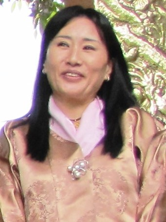 Ashi Tshering Pem Wangchuck